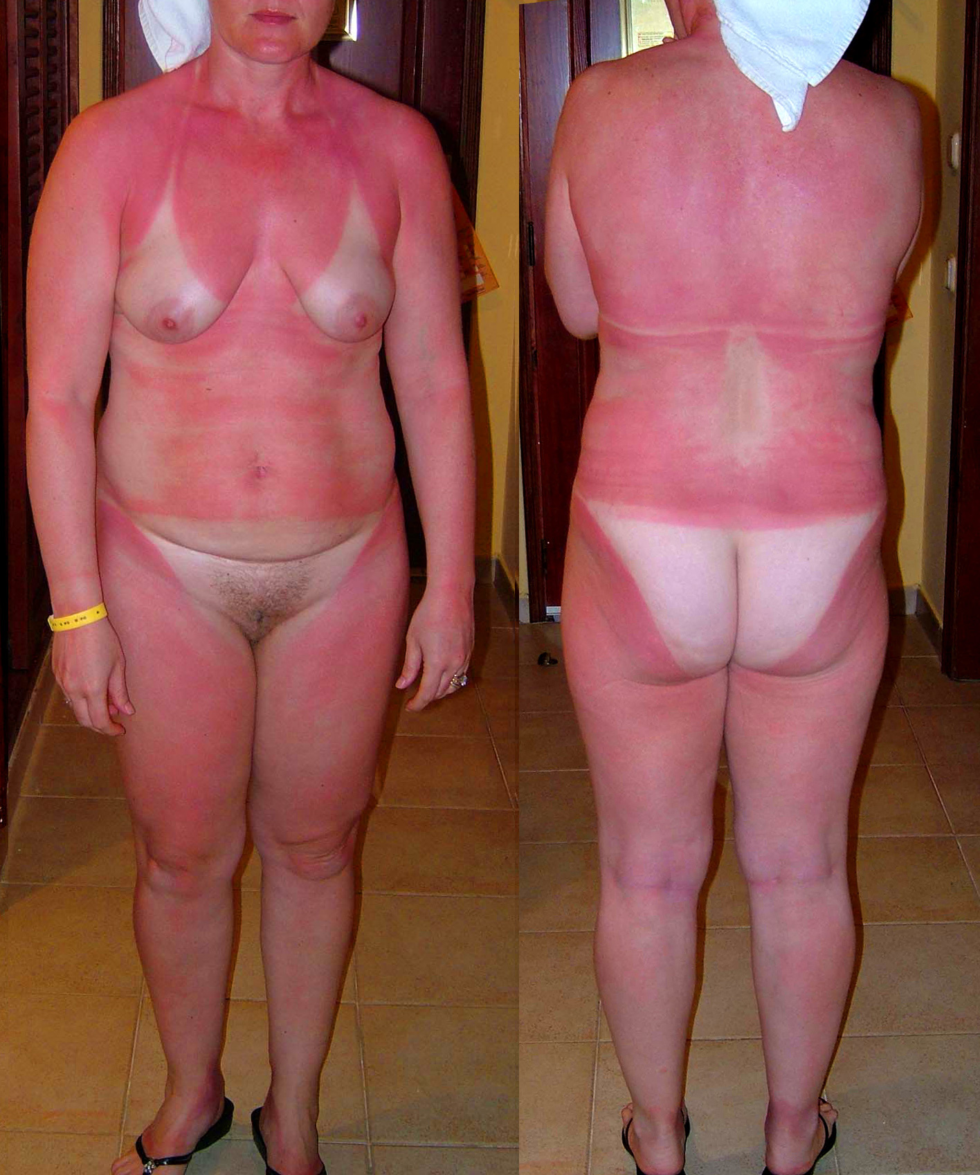 Heavily sunburnt female body - front and rear view. Visible bikini lines, any feedback would be useful.